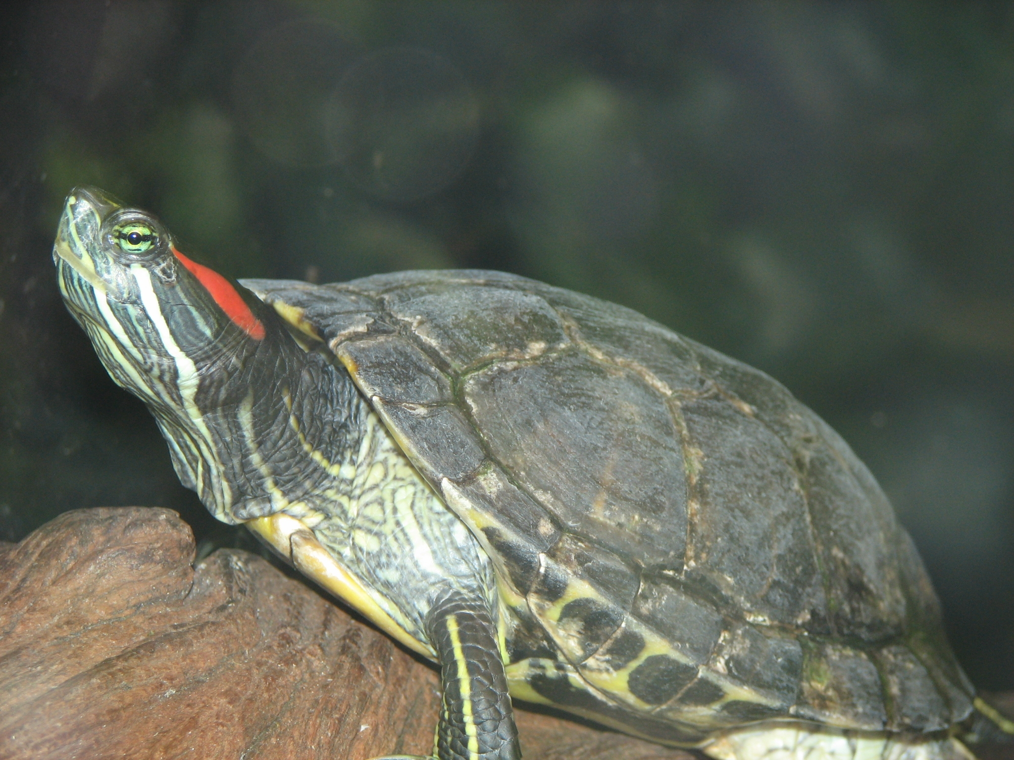 Red Eared Slider - Trachemys scripta elegans